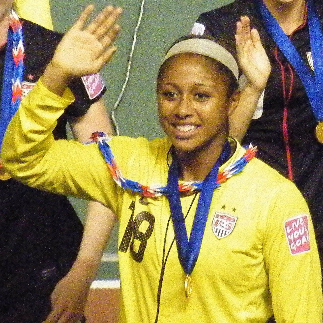 FIFA U-20 Women's World Cup 2012 Awards Ceremony